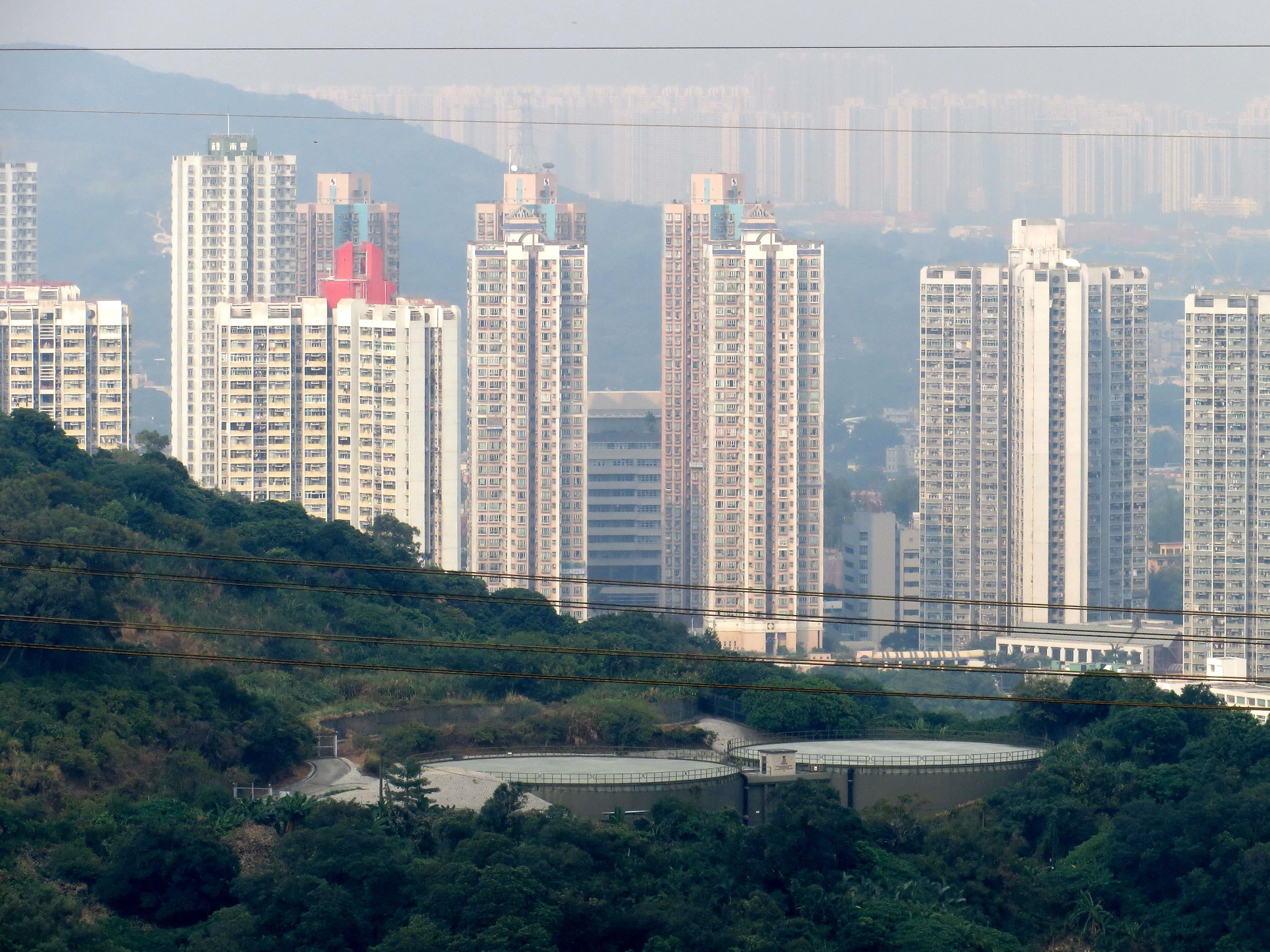 Tuen Mun North Salt Water Service Reservoir, Por Lo Shan, Tuen Mun, New Territories, Hong Kong.